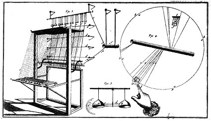 Electric harpsichord diagram (Jean-Baptiste Delaborde, 1759). Note: an electrostatic-powered carillon.